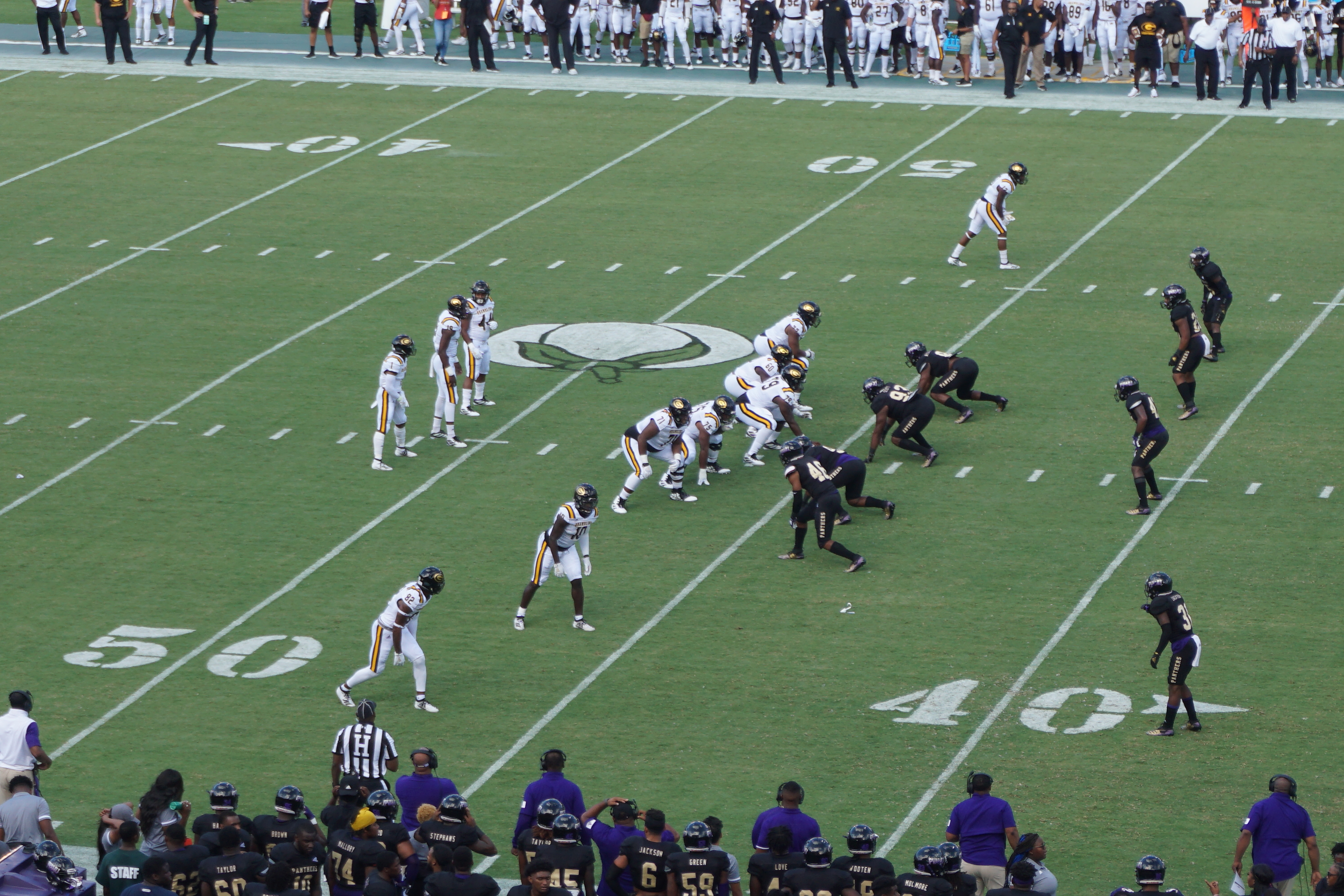 Grambling on offense during the 2019 State Fair Classic (Grambling State Tigers vs. Prairie View A&M Panthers) at the Cotton Bowl in Dallas, Texas (United States). Prairie View won 42–36.